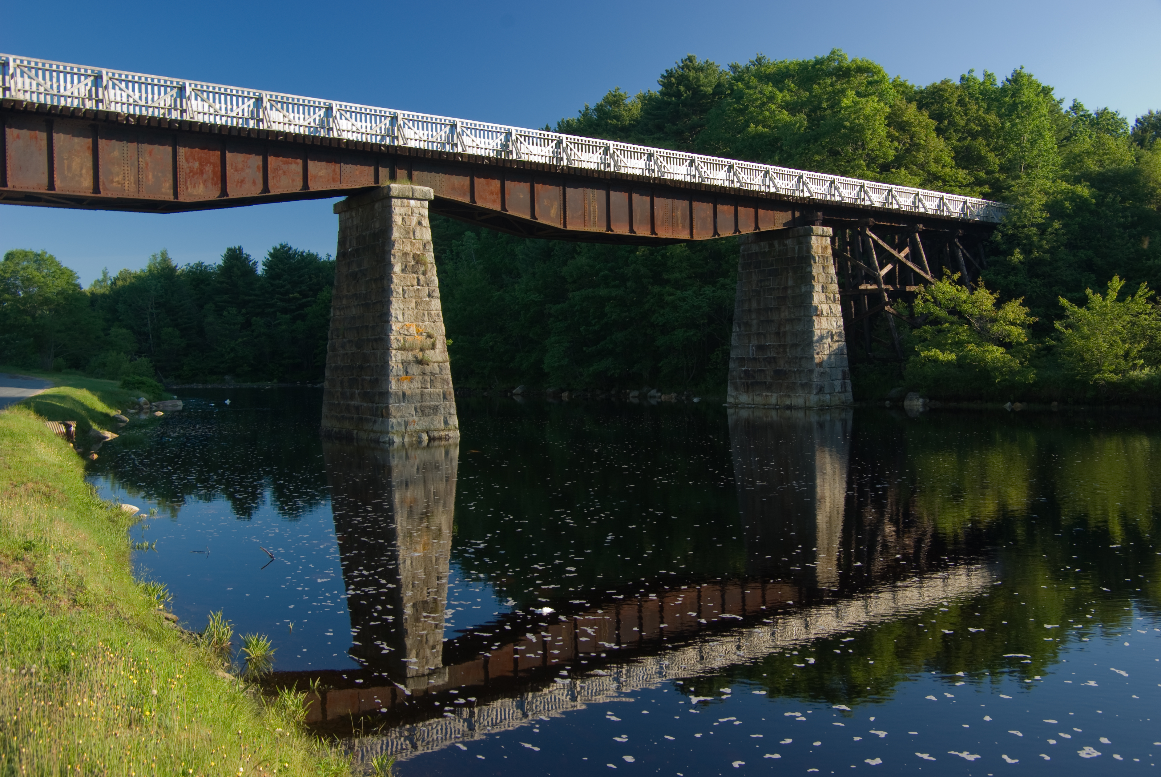 From original flickr post: Train bridge over Martins River in Nova Scotia.